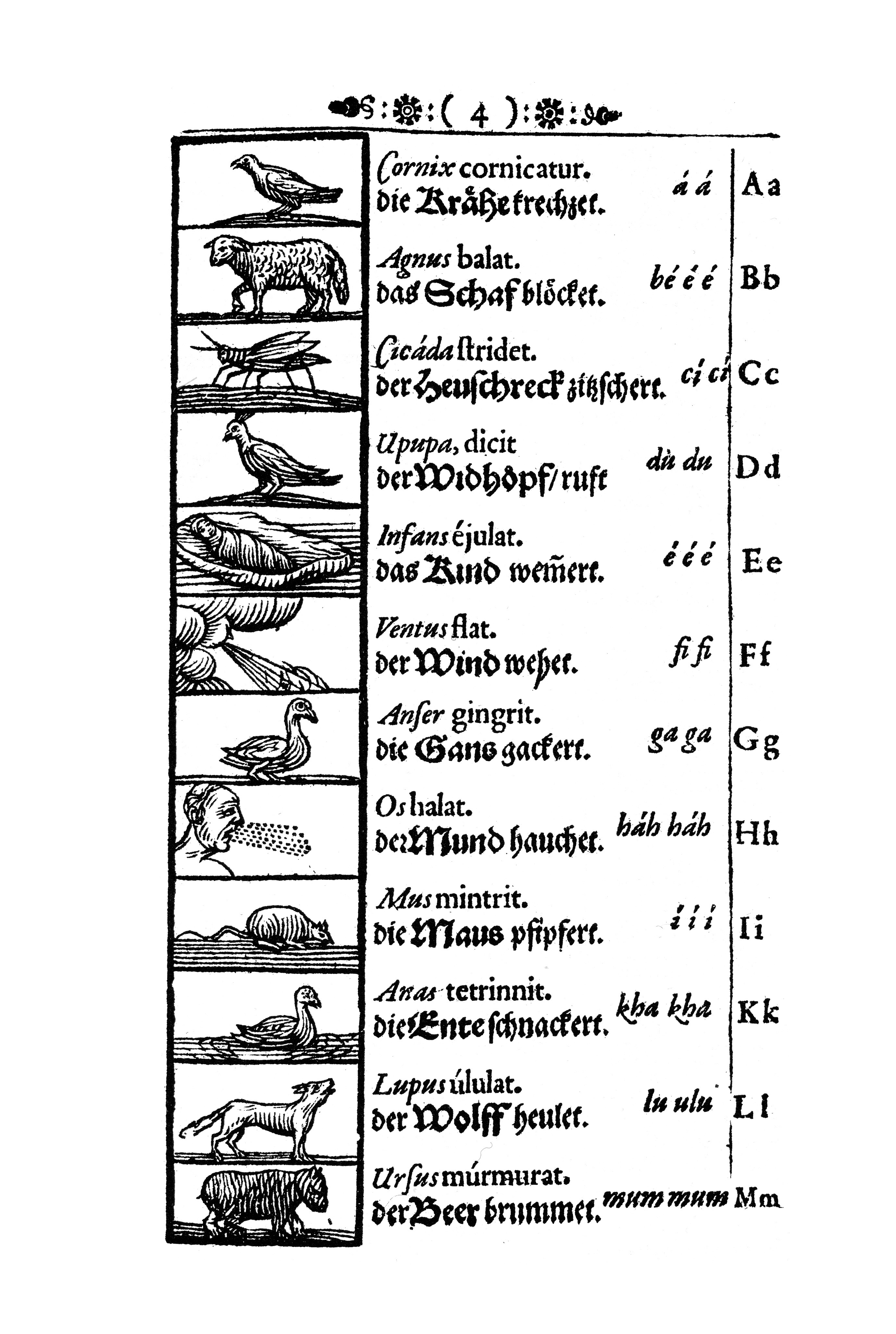 Johann Amos Comenius: Initial sound table out of Orbis sensualium pictus